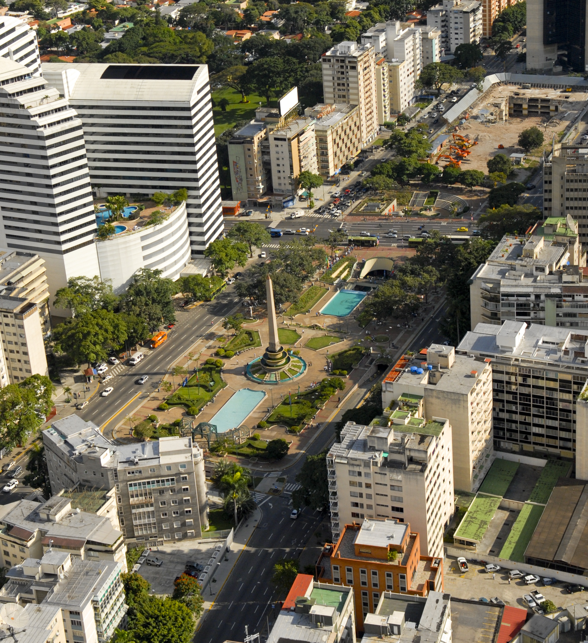 View of Altramira's Square